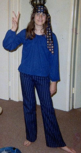 Young girl dressed in hippie fashions of 1969